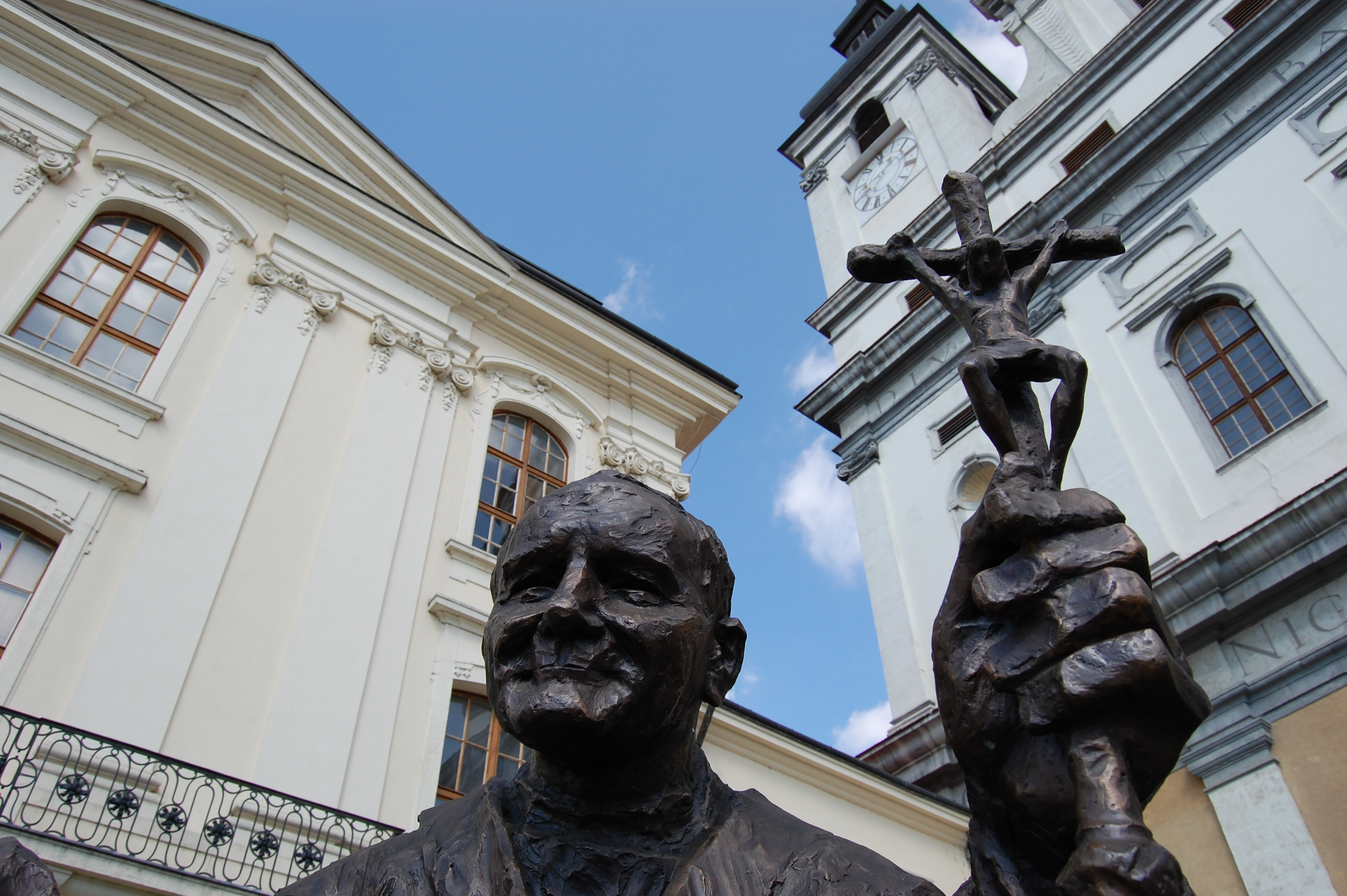 Statue of Pope John Paul II